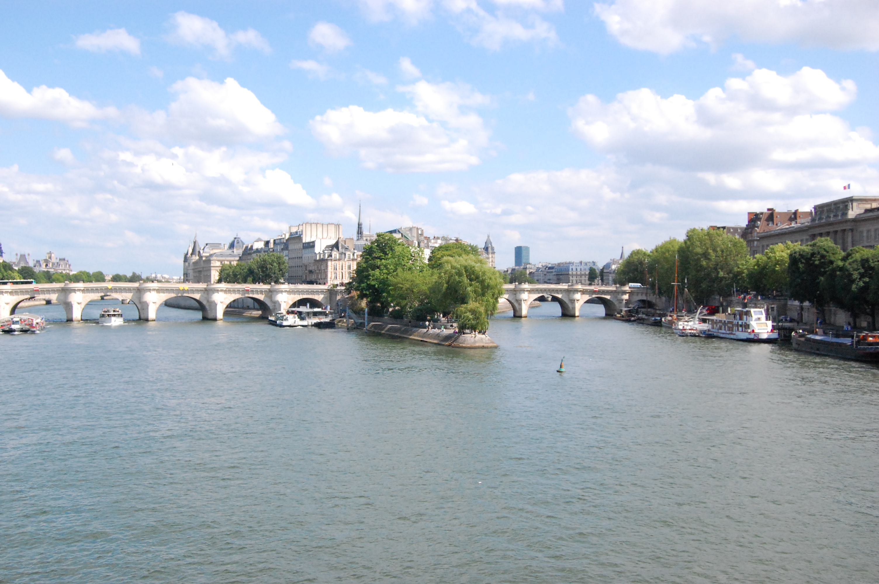 View of L'Ile de la Cite, Ile St Louis, Pont Neuf, and square du Vert Galant on Ile de la Cite taken from Pont des Art